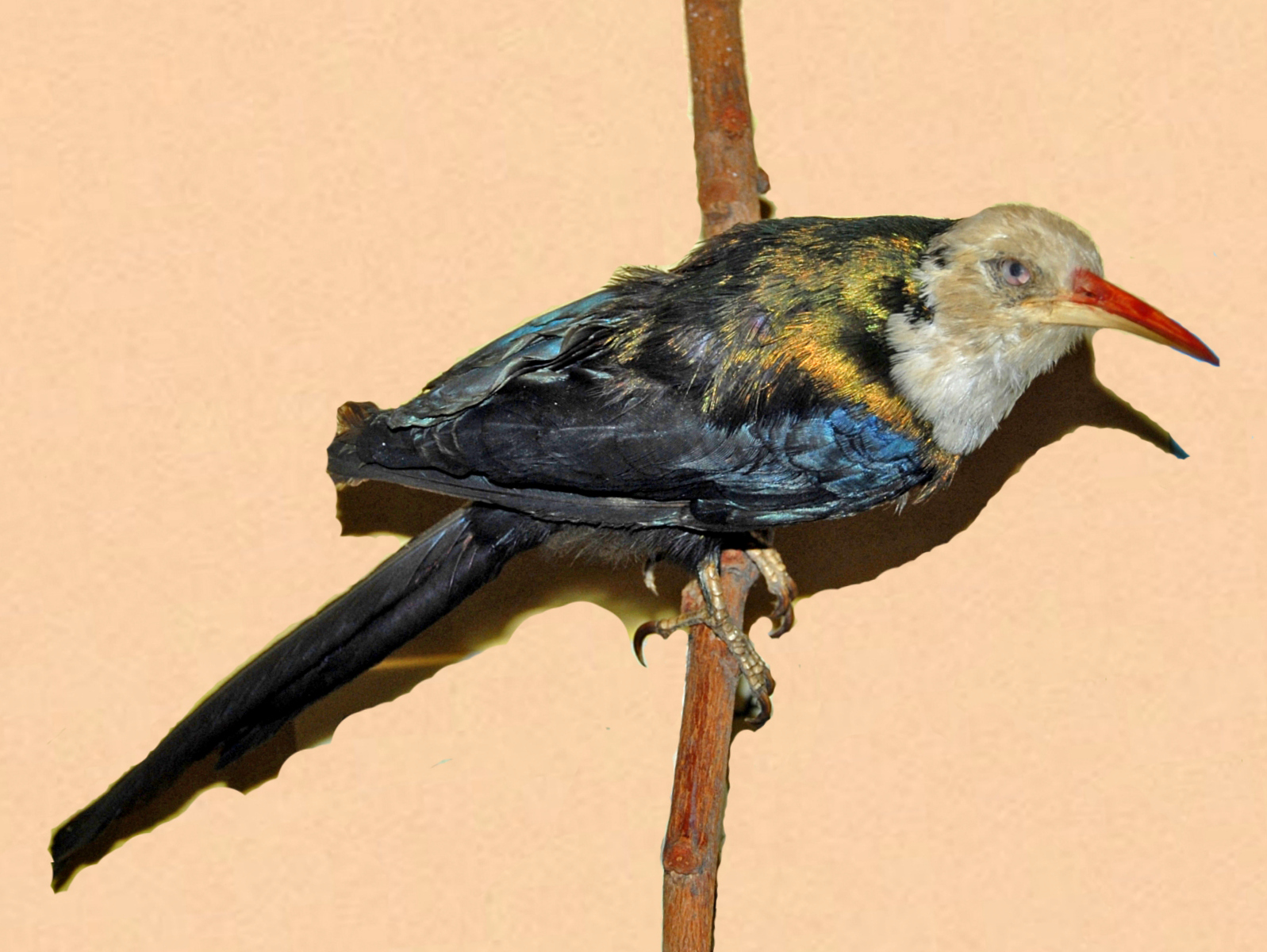 Phoeniculus bollei, on display at the Museo Civico di Storia Naturale di Milano